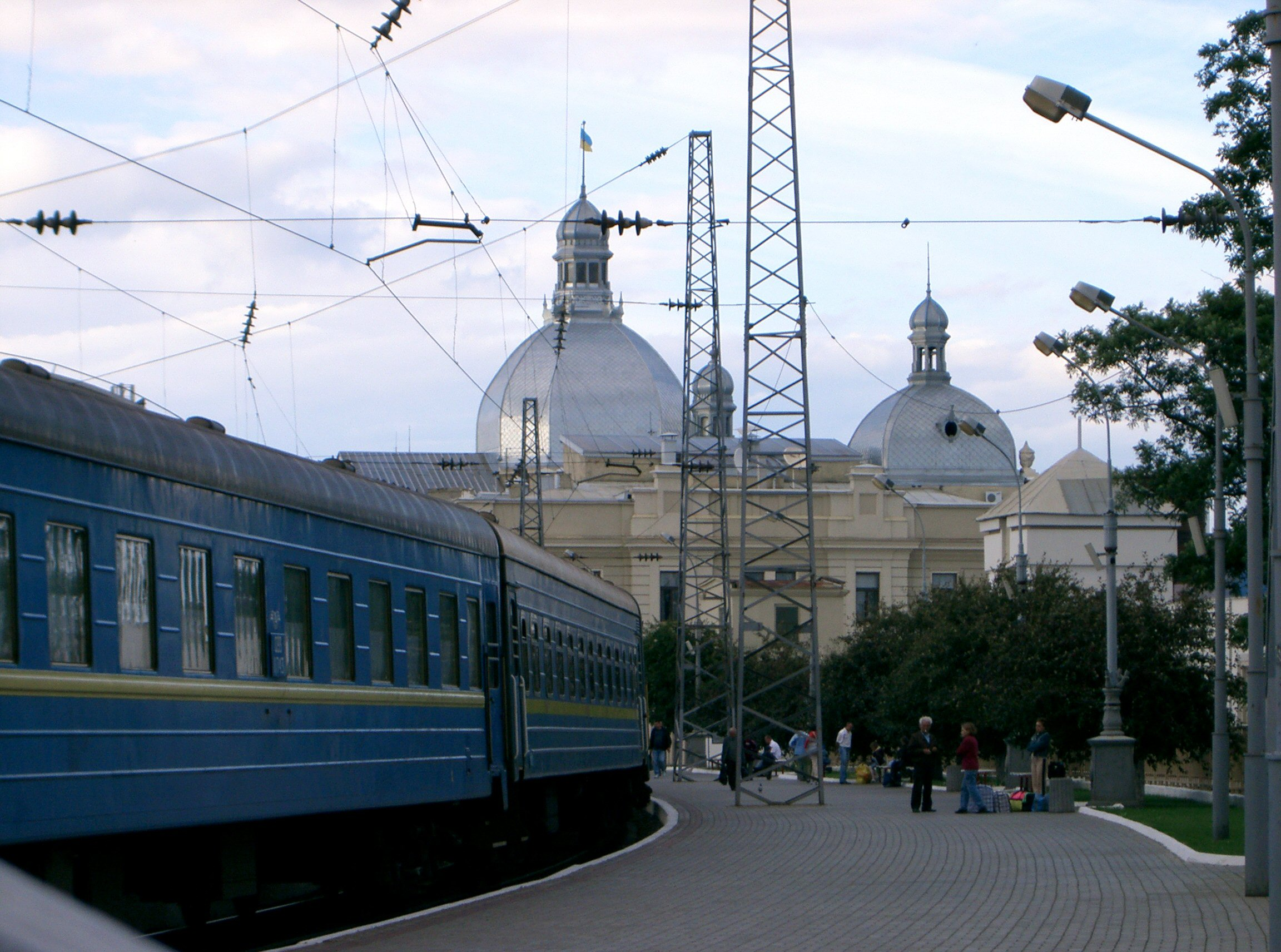 Overnight sleeper train at the Lviv Rail Terminal in Lviv, Ukraine